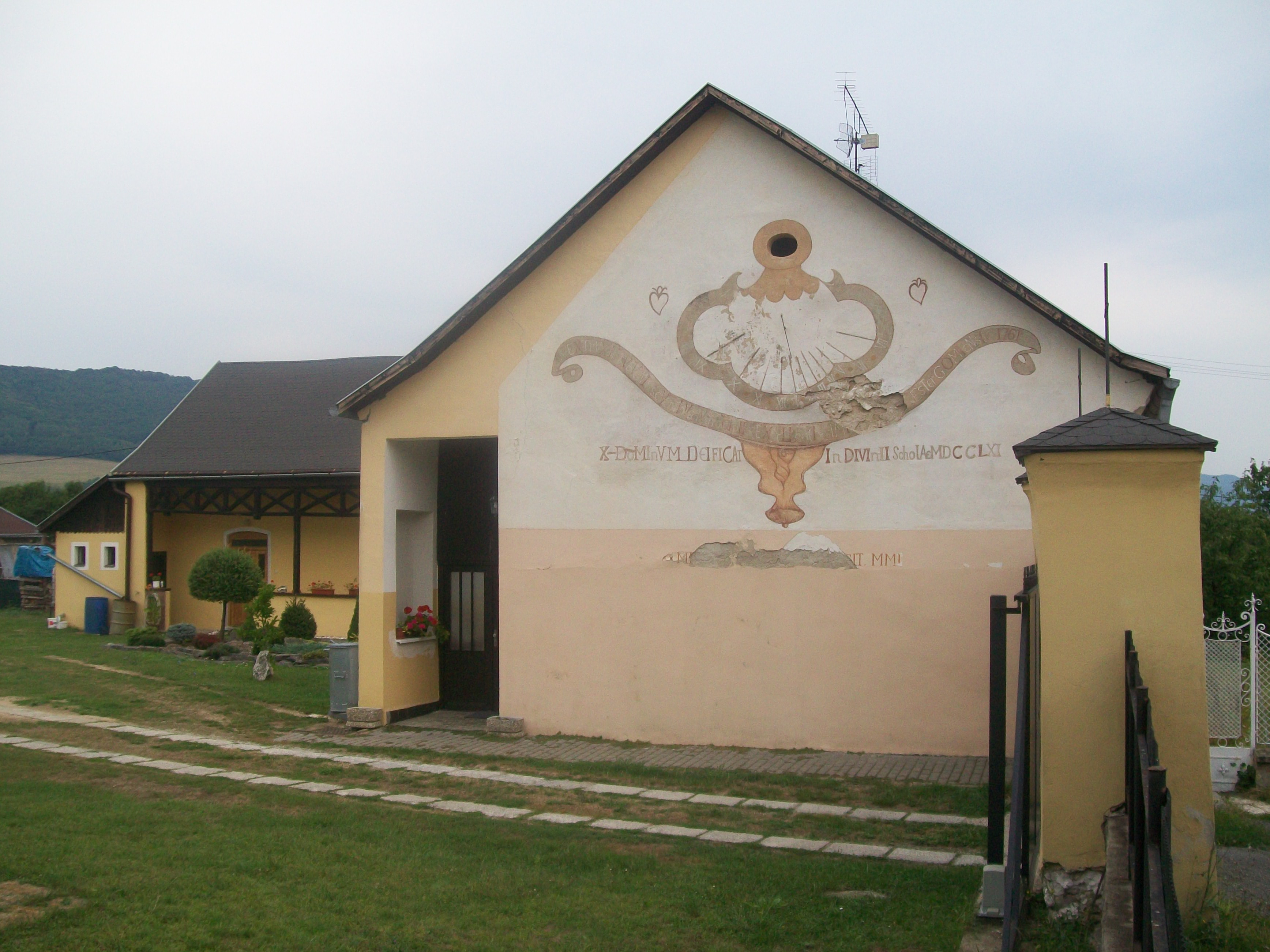 Rectory with a sundial in Divín, built in 1761Slovenčina: Fara so slnečnými hodinami v Divíne bola postavená v roku 1761 Object location48° 26′ 57.62″ N, 19° 31′ 51.31″ E